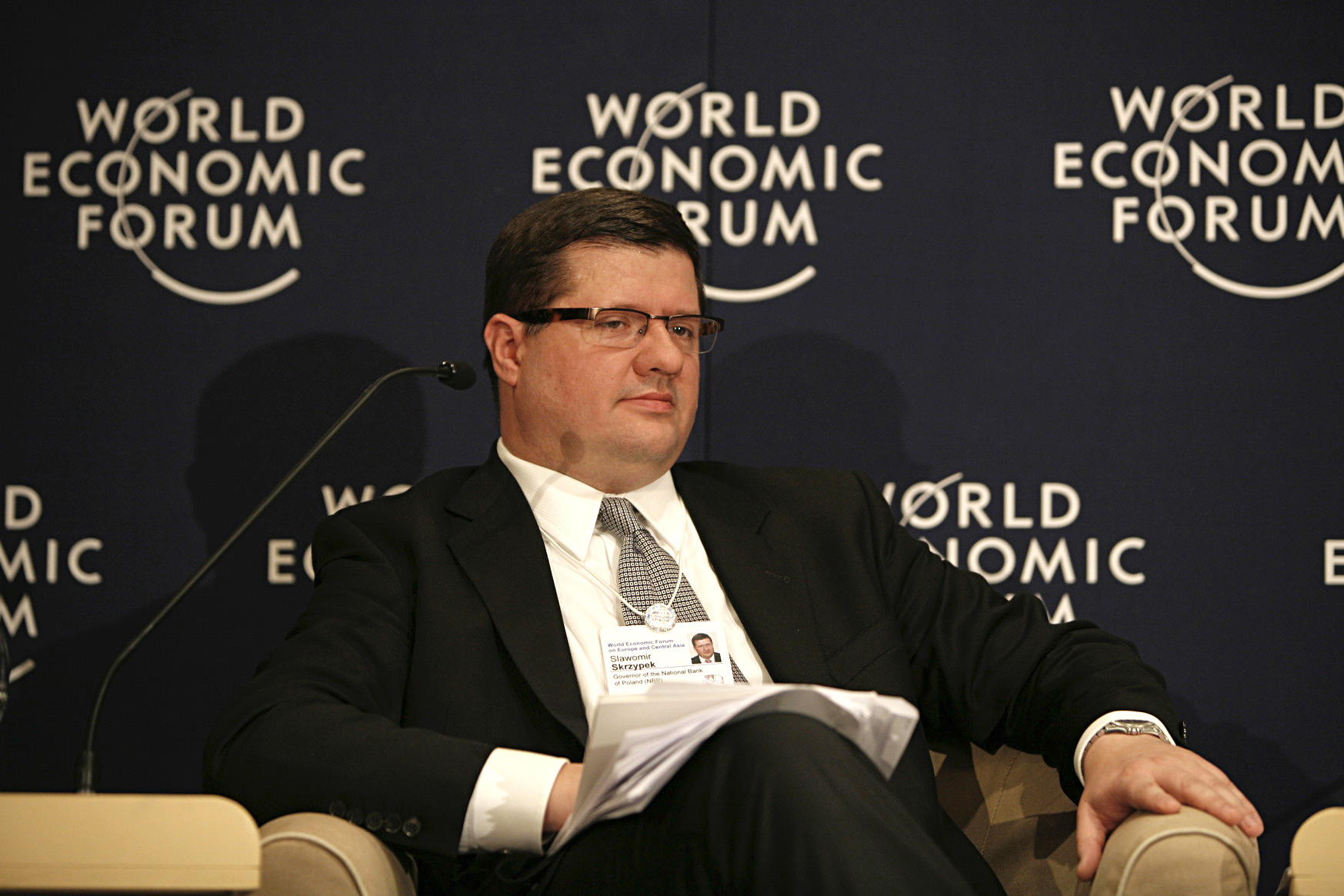 ISTANBUL/TURKEY, 31OCT08 - Slawomir Skrzypek, Governor of the National Bank of Poland (NBP) at the World Economic Forum on Europe and Central Asia in Istanbul, 30 October - 1 November 2008. Copyright World Economic Forum ( by Serkan Eldeleklioglu-Bora Omerogullari-Ozan Atasoy